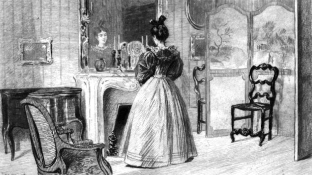 adult Cosette looking in the mirror